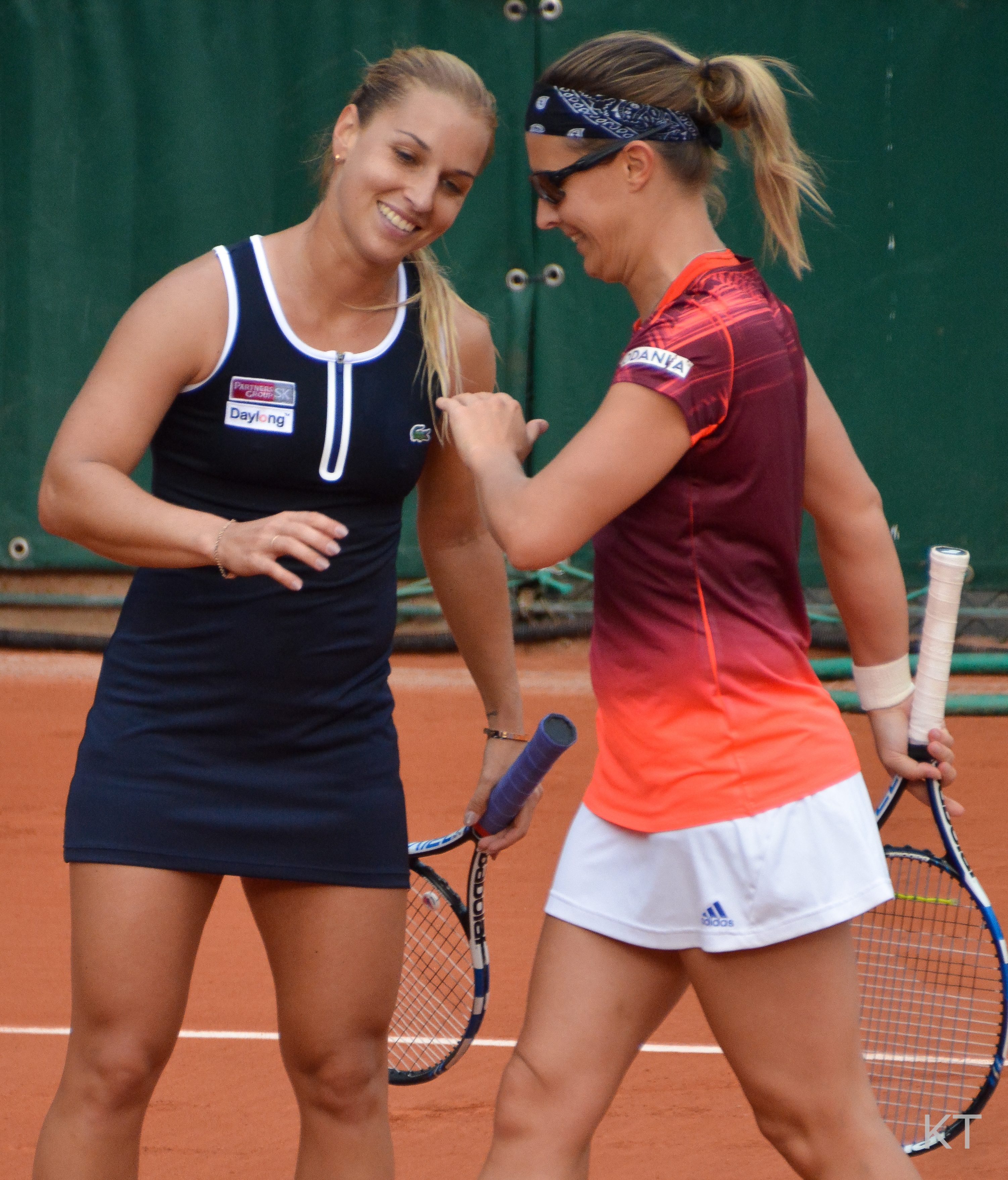 Day 5 of Roland Garros 2016.